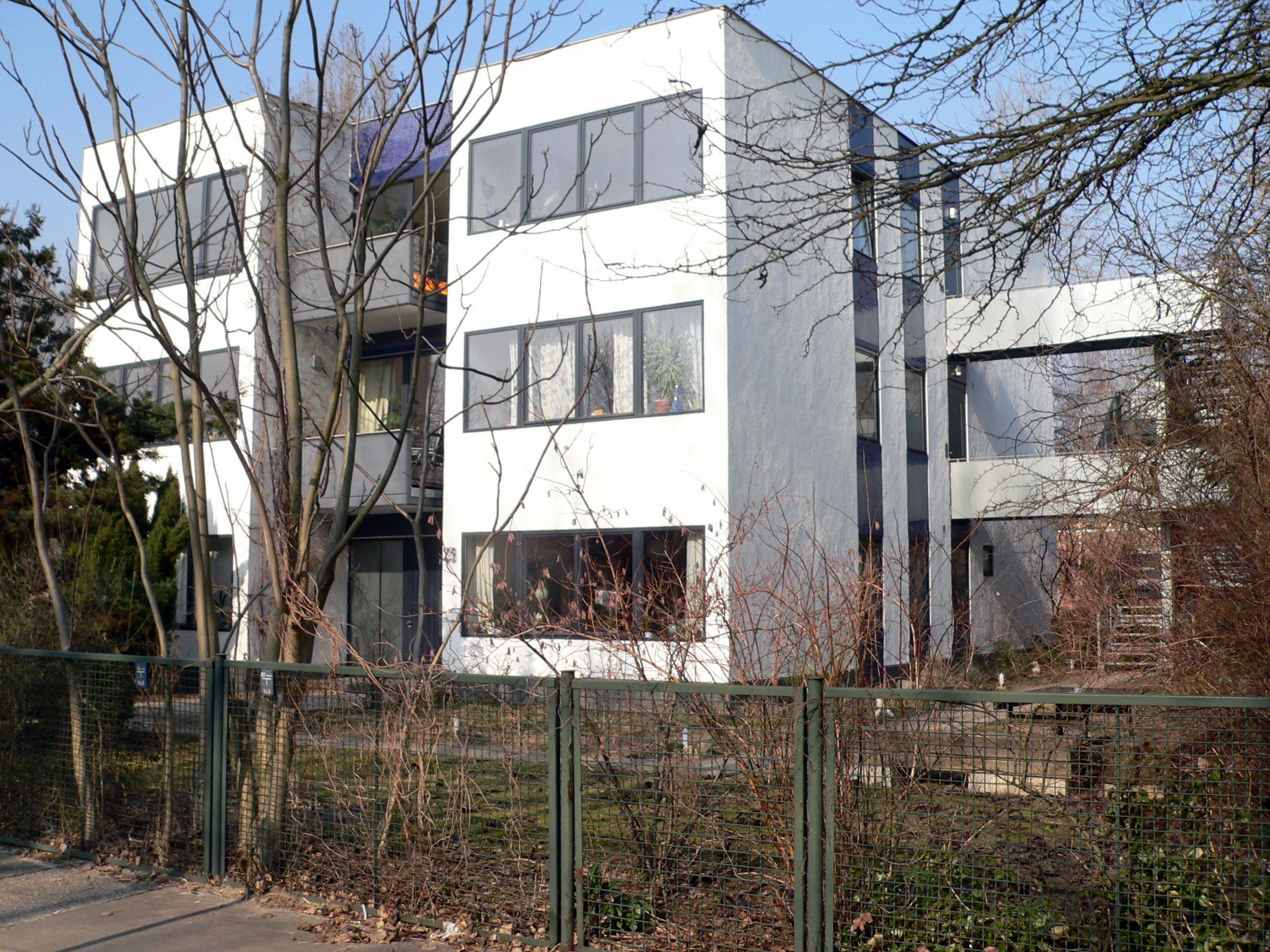 Berlin-Prenzlauer Berg Stavangerstraße